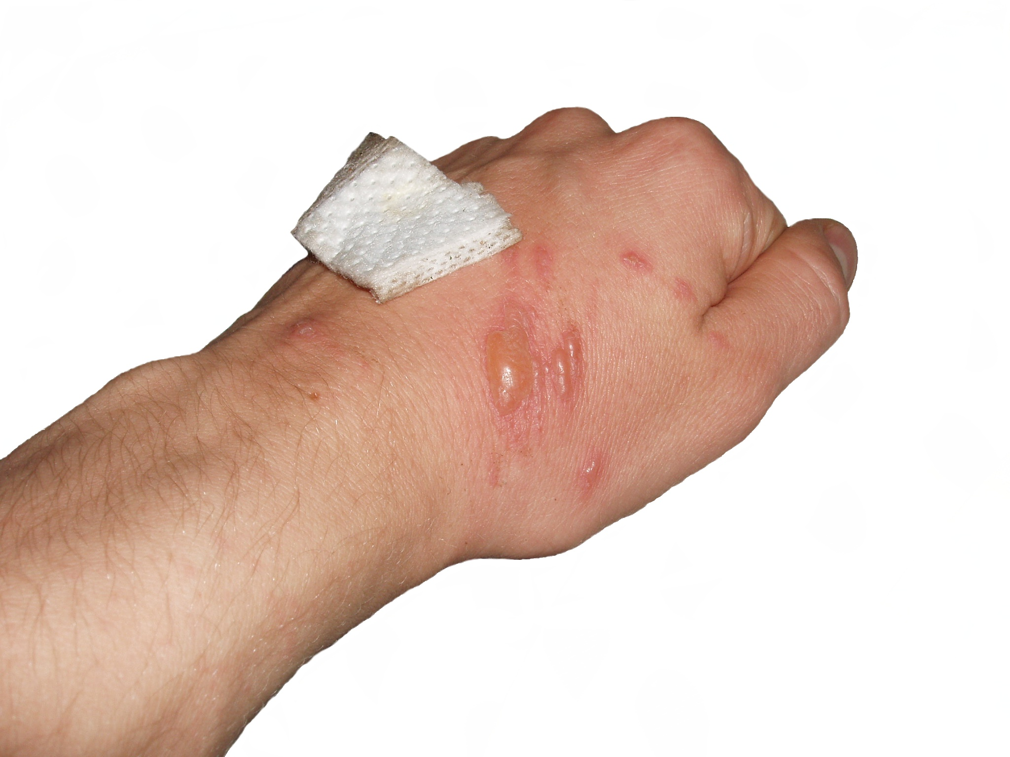 Contact with Heracleum sosnowskyi.